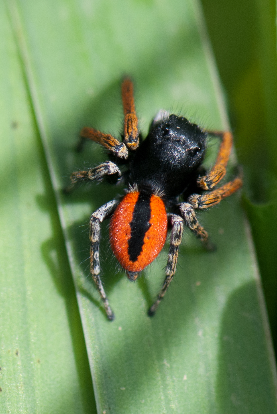 This is a photo of a rare species of jumping spider called Philaeus chrysops, taken in Greece